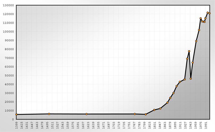 This image shows the population statistics of Heilbronn (Germany).